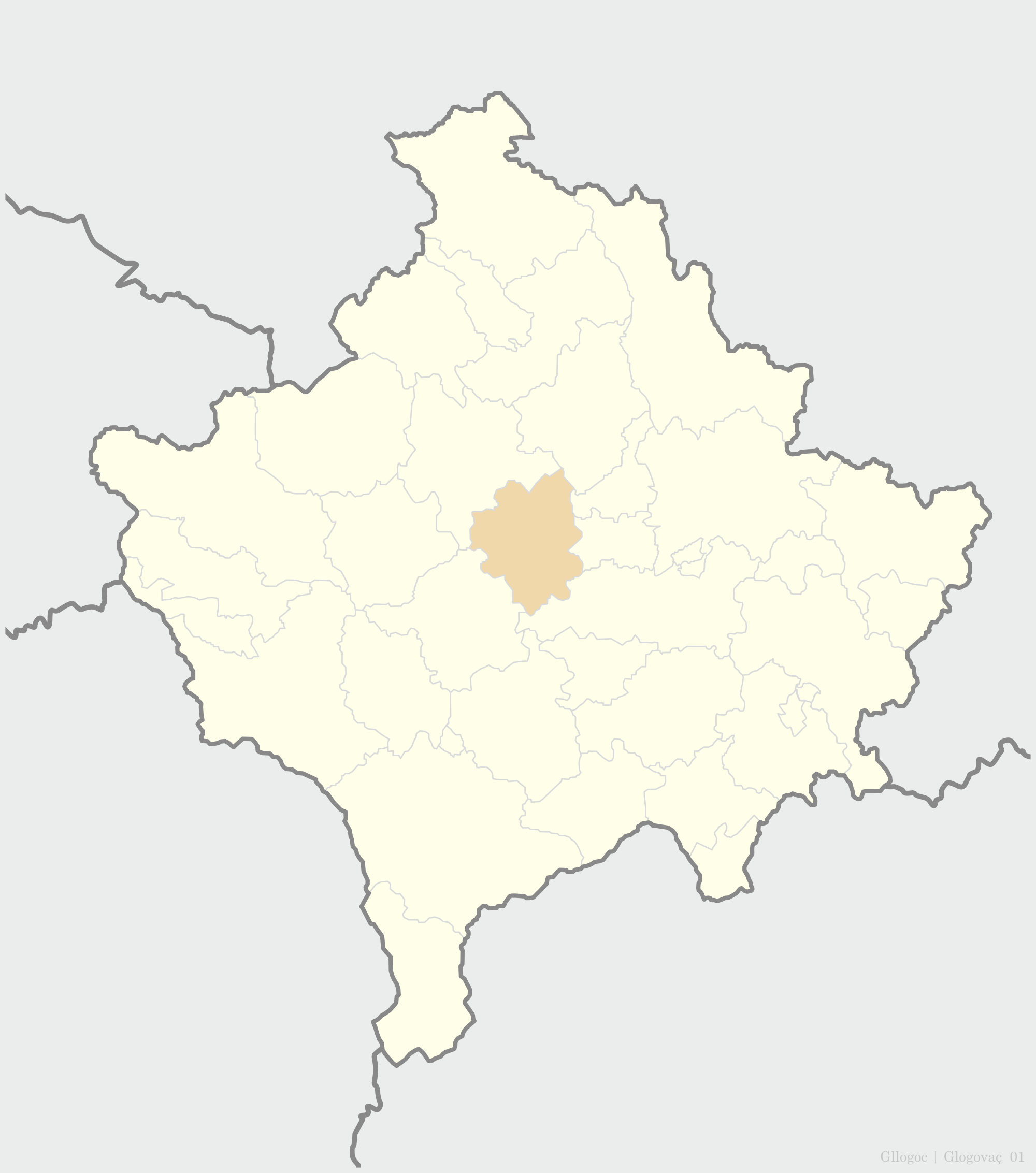 Municipality of Glogovac map